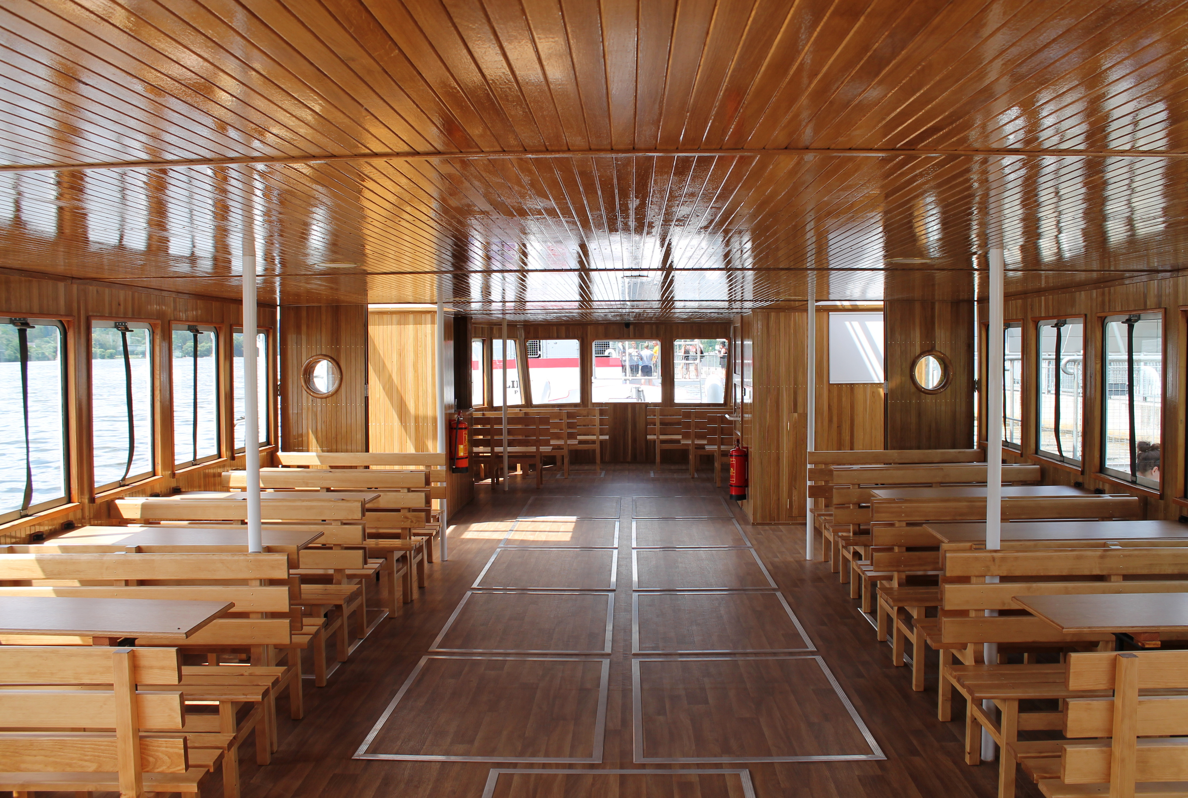 Morava ship, Brno, Czech Republic